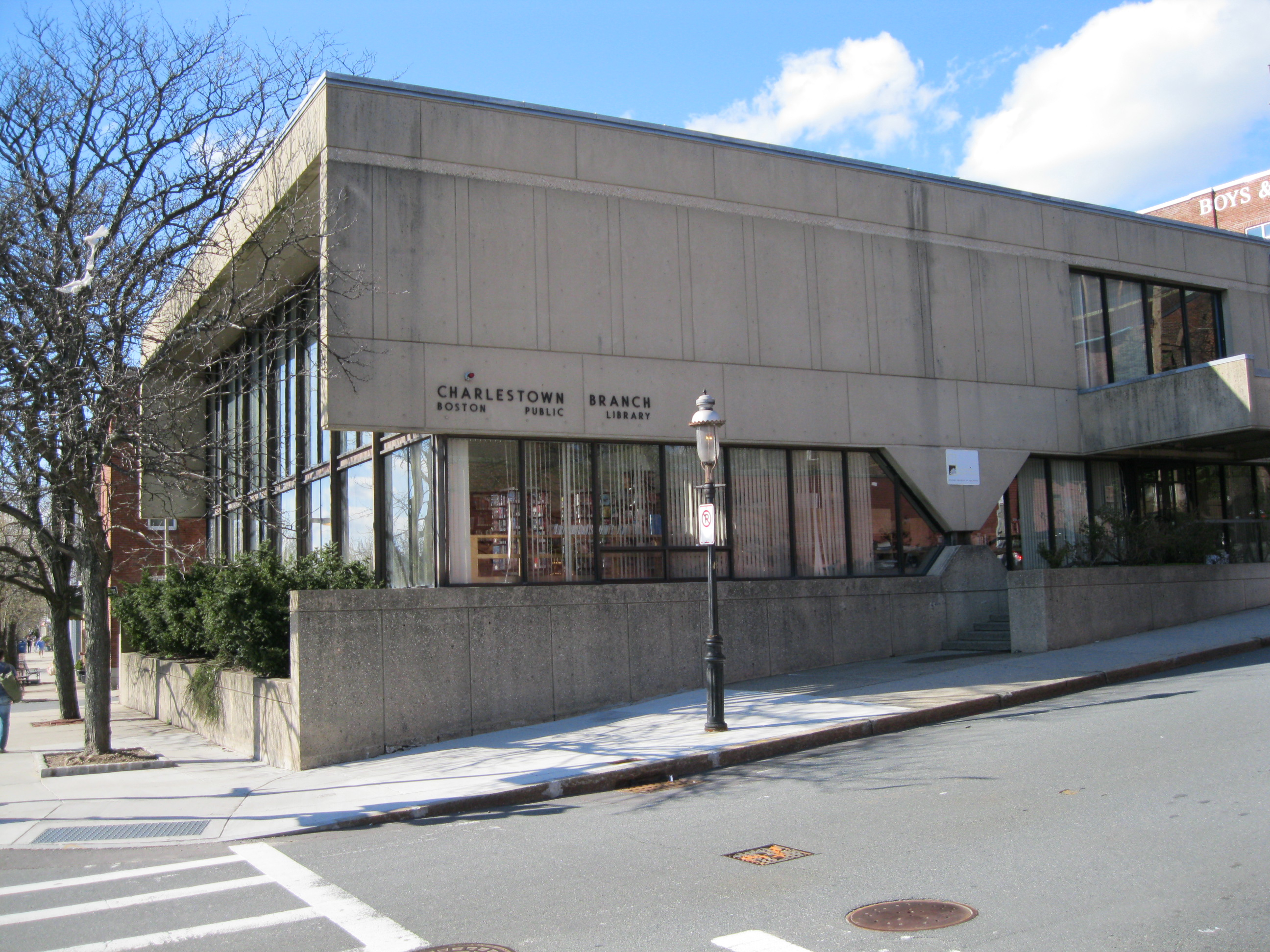 Boston Public Library, Charlestown Branch, 179 Main St, Charlestown MA 02129